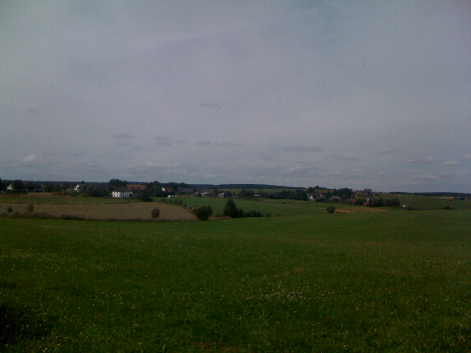 Kamberg